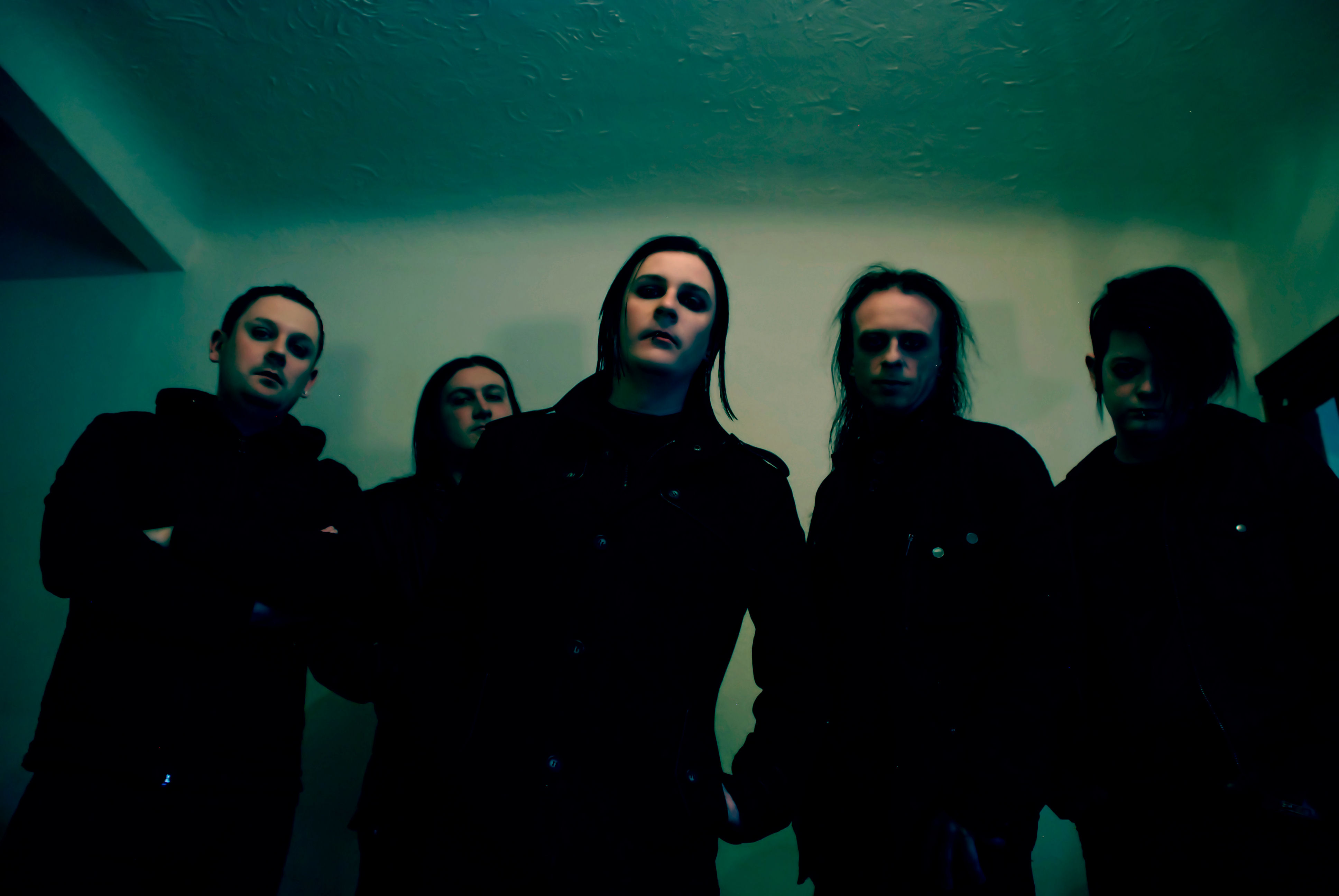 Sinnergod World In Grey Promo Photo